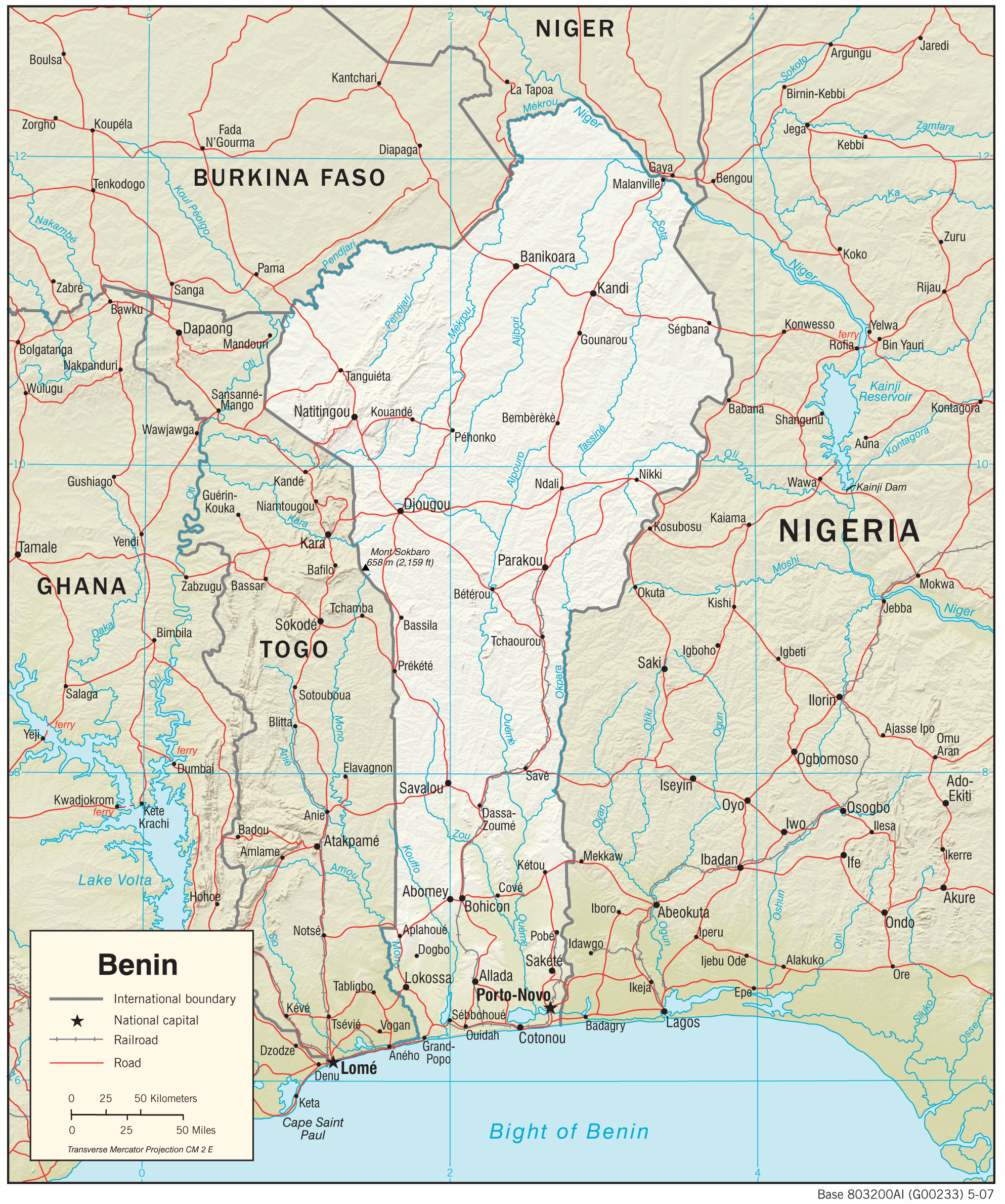 Topographic map of Benin (shaded relief), 2007.